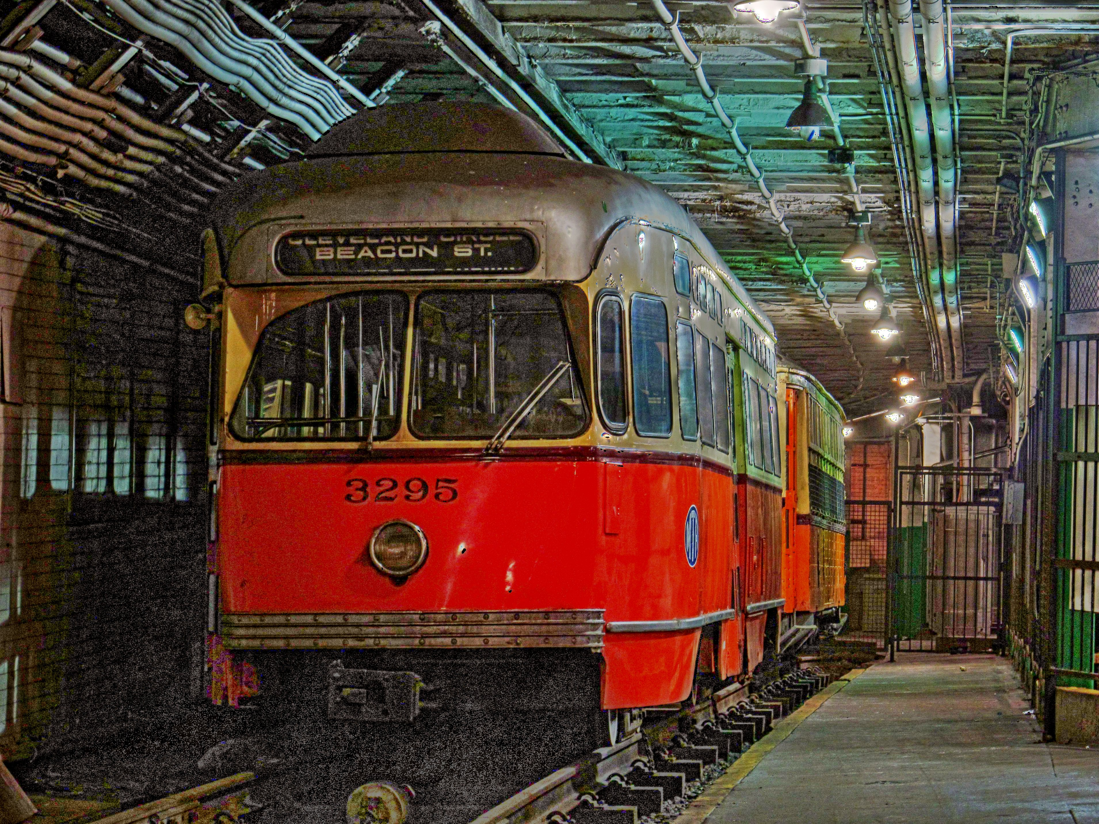 Two old streetcars kept on the siding at Boylston: a PCC streetcar (#3295) and a type 5 car (#5734). HDR image consisting of 1/4th- and 1/25th-second exposures, tonemapped with Luminance HDR.